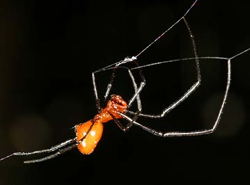 male Argyrodes flavescens from Okinawa.